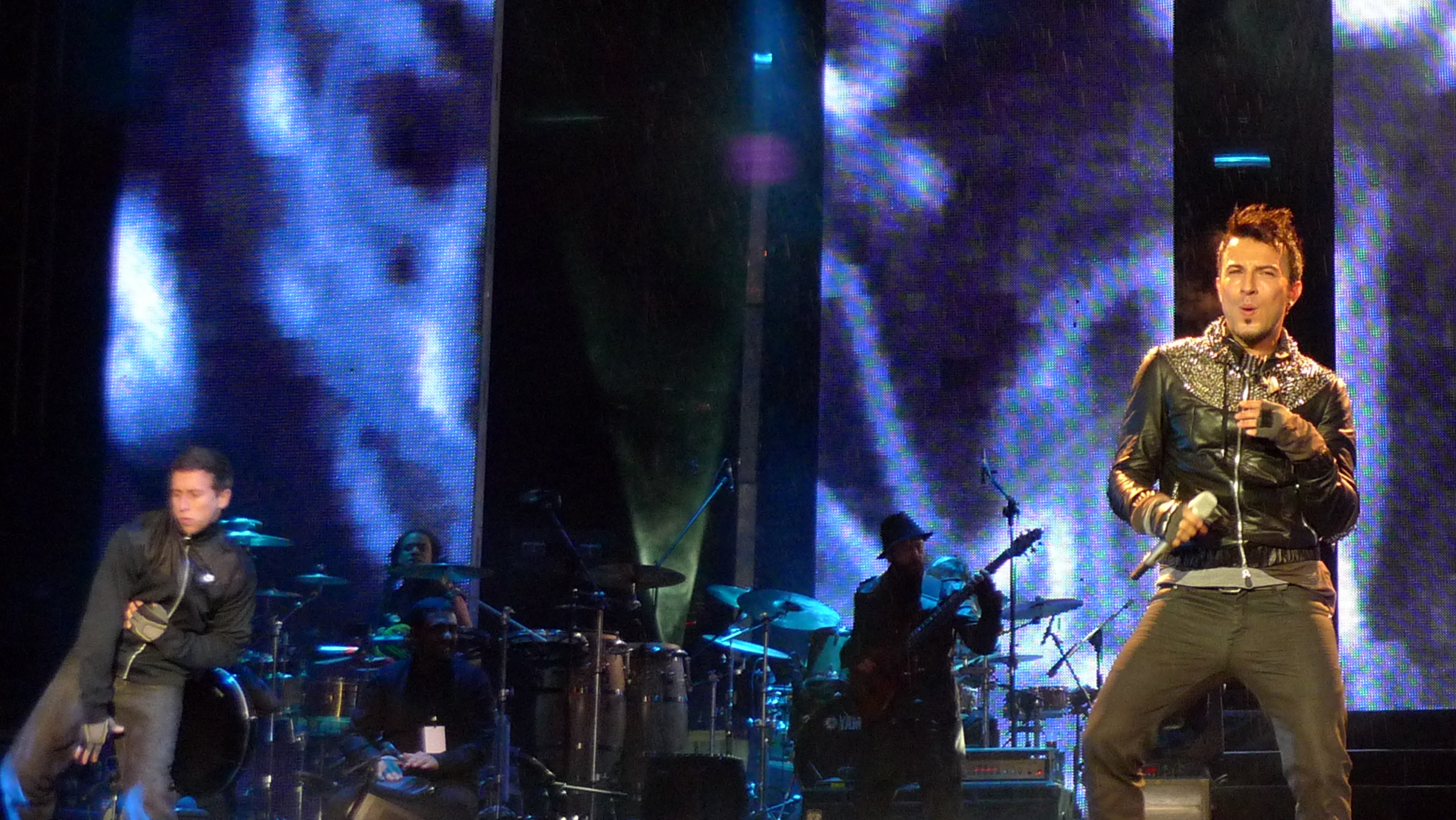 Tarkan in Istanbul concert, 2010.